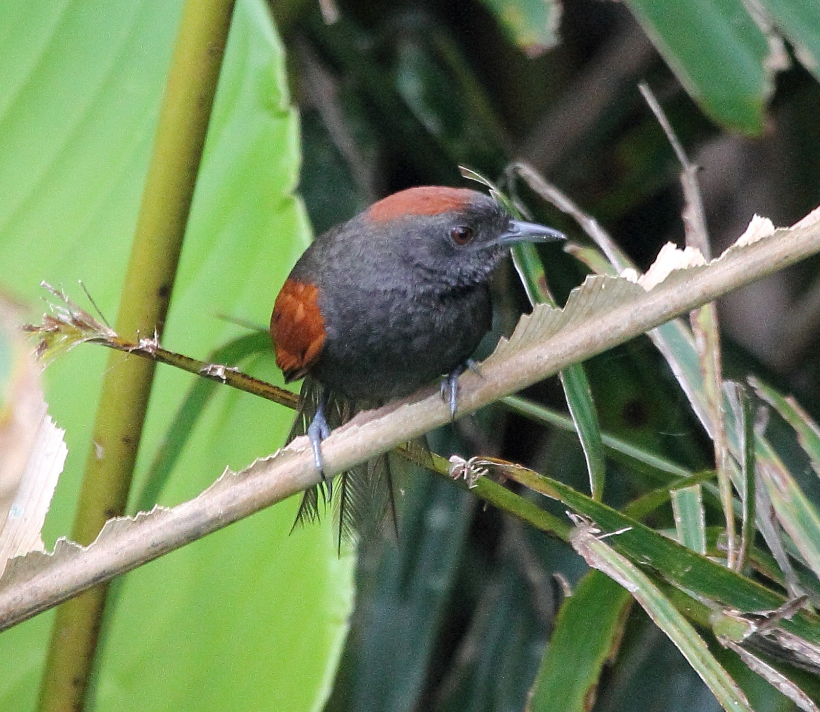 Slaty spinetail at Turrialba, Costa Rica